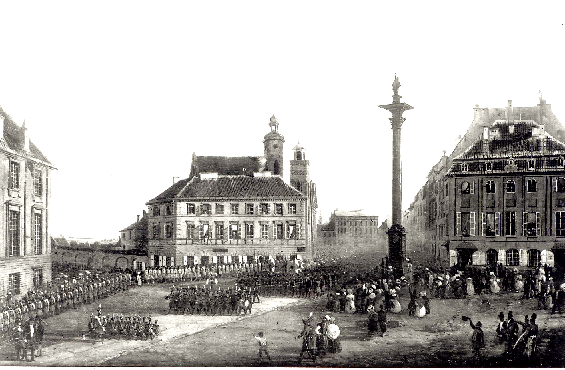 Russian POW introduced in Warsaw Castle 1831